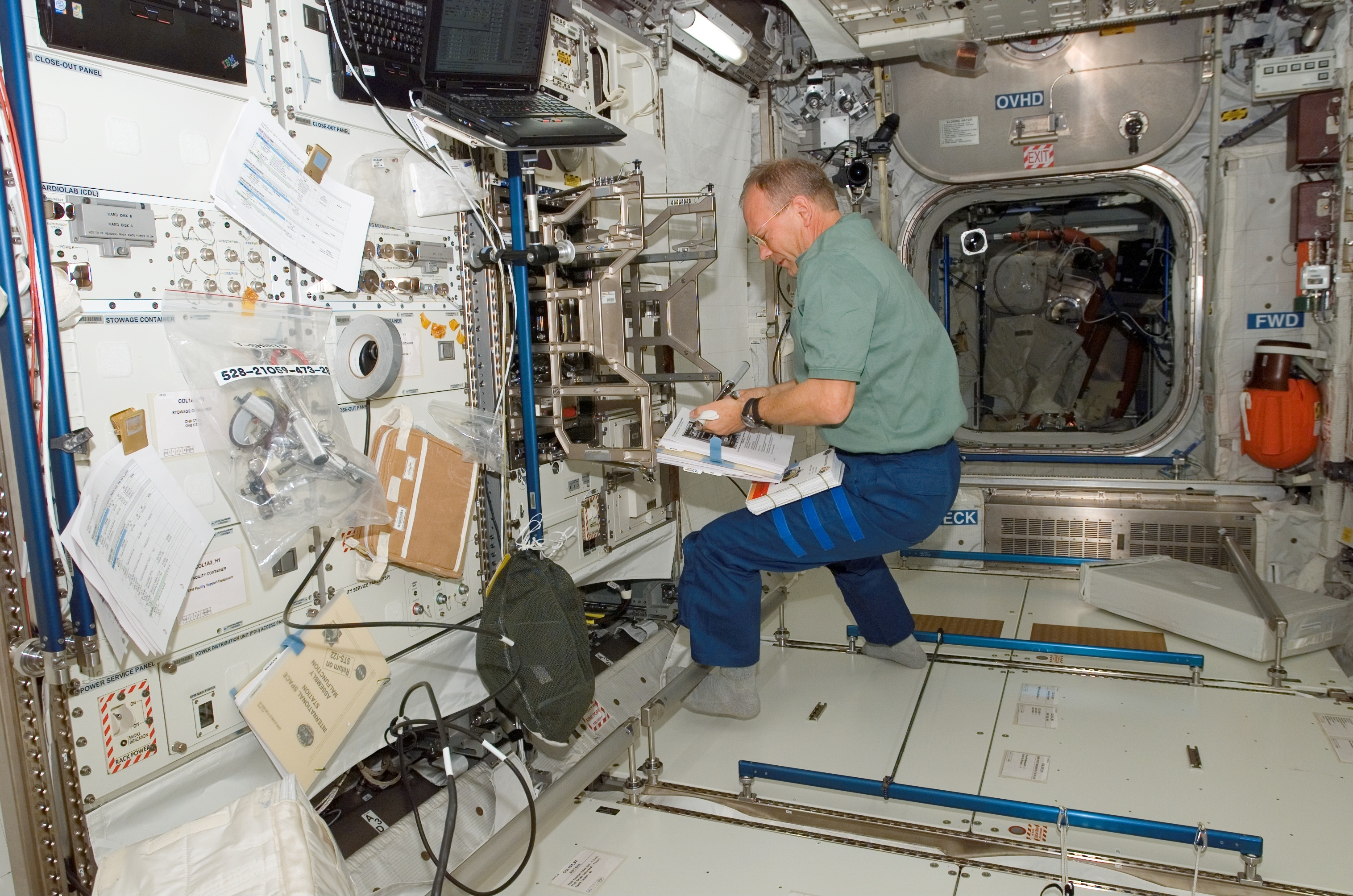 European Space Agency astronaut Hans Schlegel, STS-122 mission specialist, continues work aimed toward readying the agency's new Columbus laboratory for duty aboard the International Space Station. A pictorial guidebook assists the astronaut in installing the lab's experiment racks. In the background through the docking port, the Harmony module is visible.